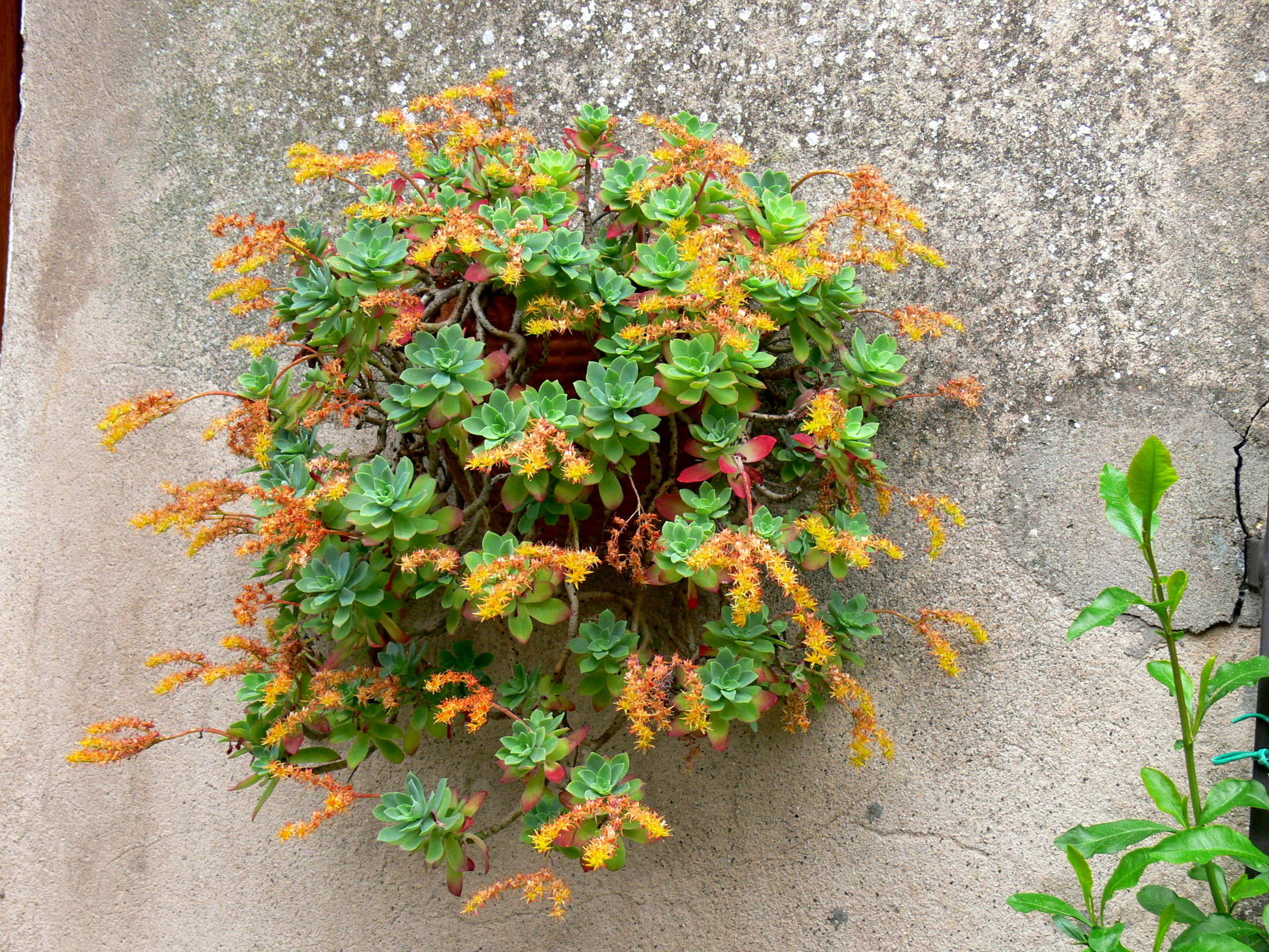 Marciana Alta ( Elba ). Plants in the Via Appiani.